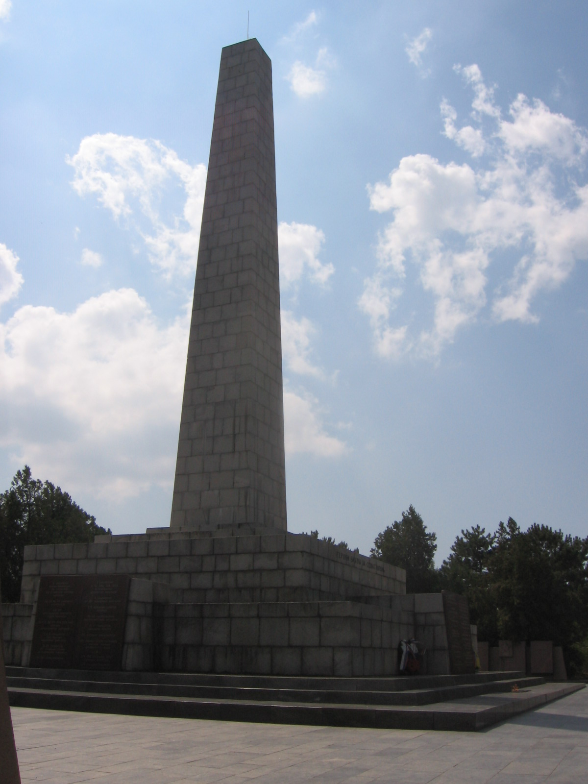 Obelisk of Glory to Soviet Warriors Liberators on Sapun Mountain in Sevastopol. Built in 1944 by the Independent Coastal Army on a project by architect lieutenant A.D.Kiselyov.